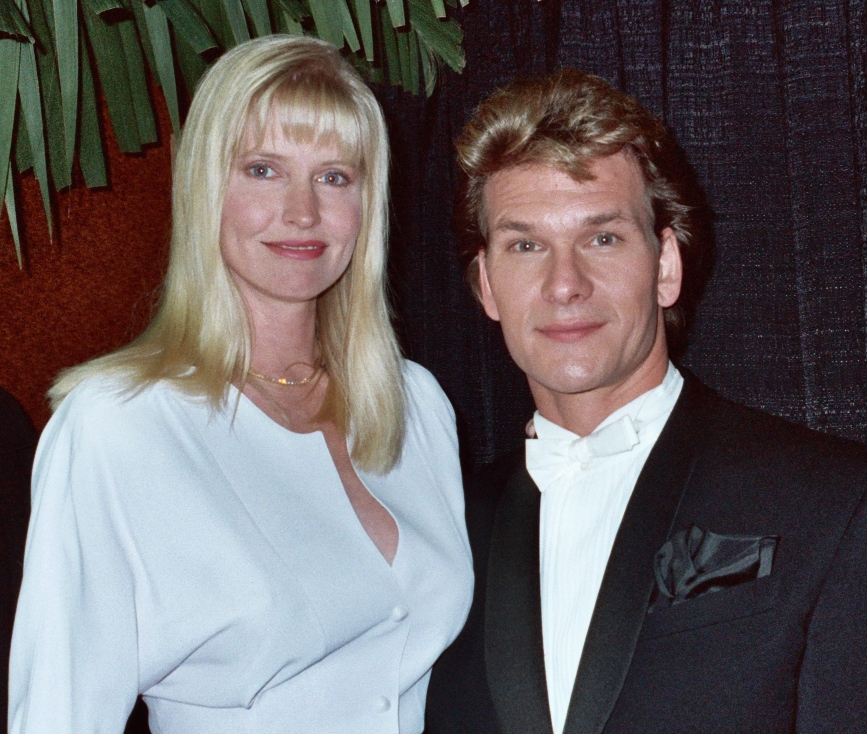 Patrick Swayze and his wife Lisa Niemi at the 1990 Grammy Awards. Scanned from the original 35MM film negative.